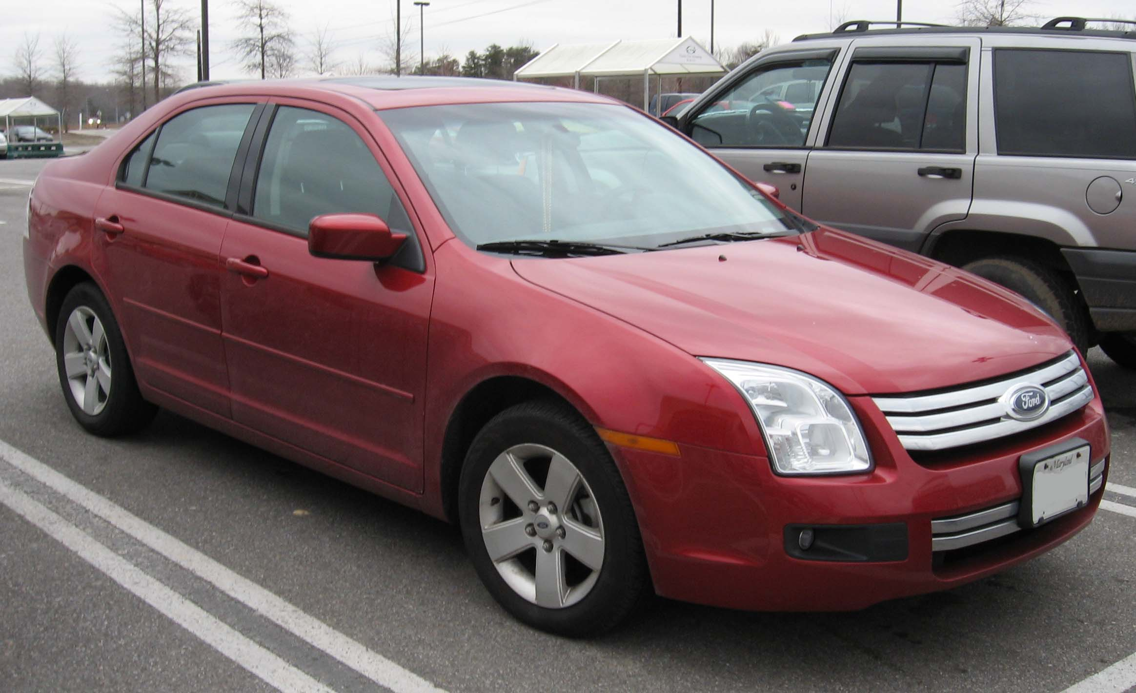 2006-2007 Ford Fusion SE V6 photographed in USA.